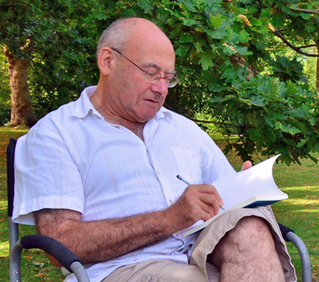 Author Eugene Dubnov (1949-2019) in Regent's Park, when visiting London in August, 2015.